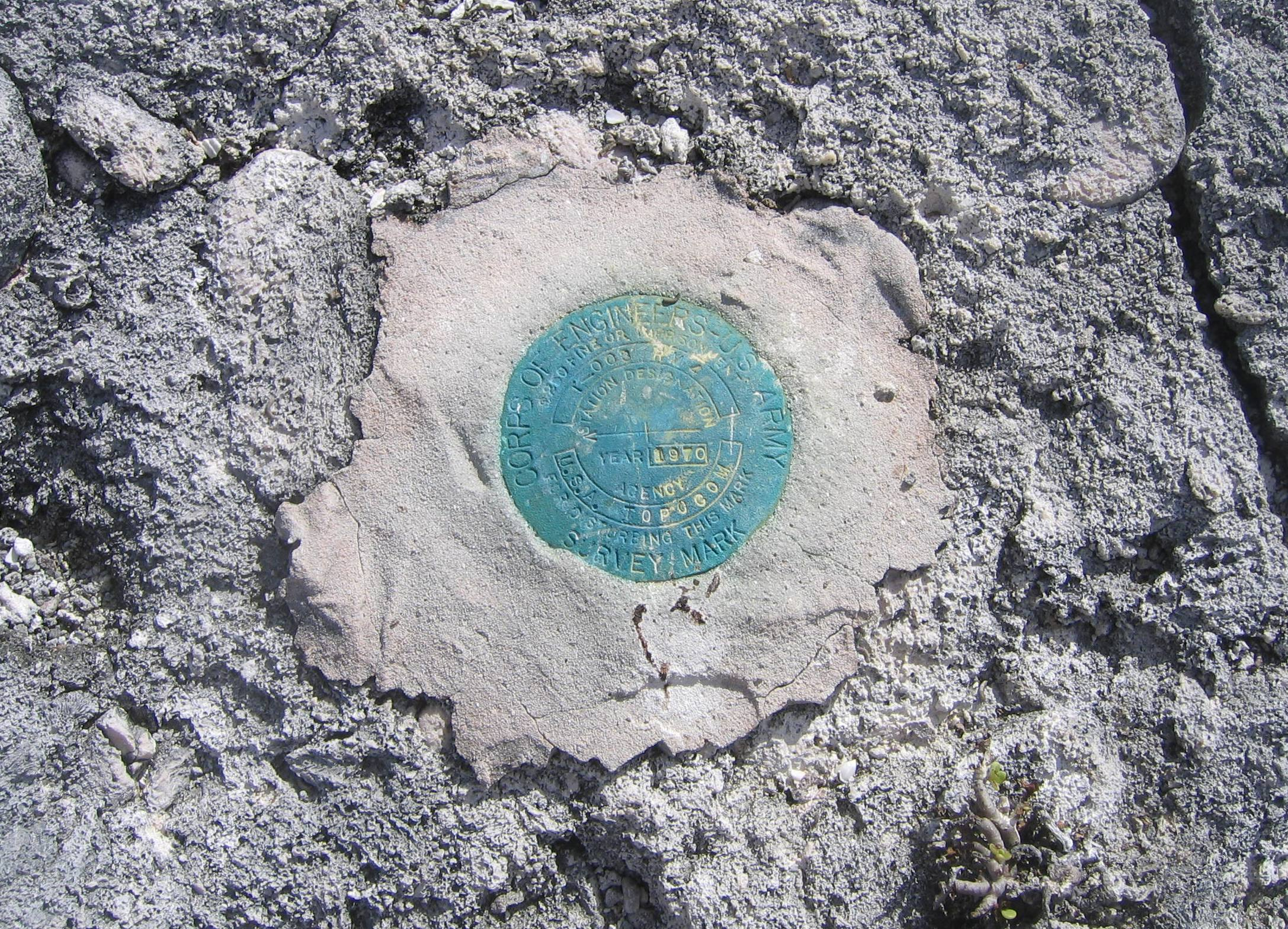 United States Army Corps of Engineers Survey Mark on Birnie Island, Phoenix Islands, Kiribati.